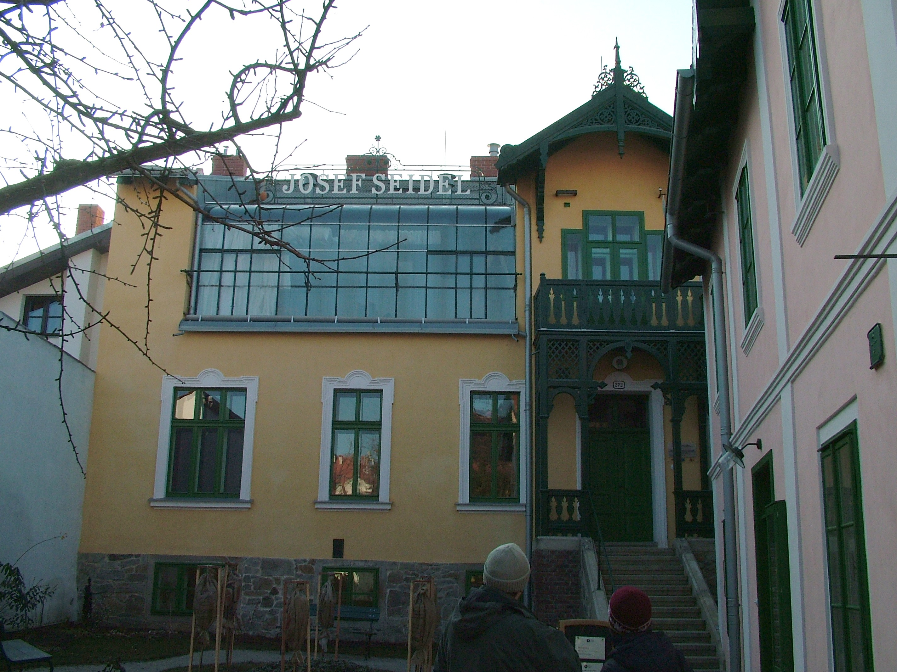 Josef Seidel atelier in Český Krumlov